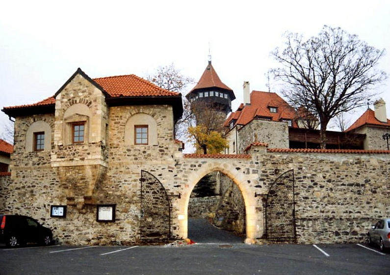 This image shows Hněvín castle in Most, Czech Republic.